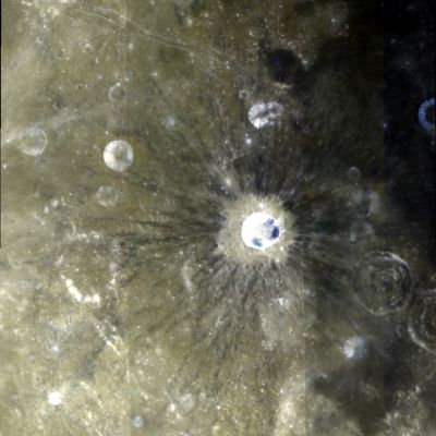 Dionysius crater slightly right form the center of the image.